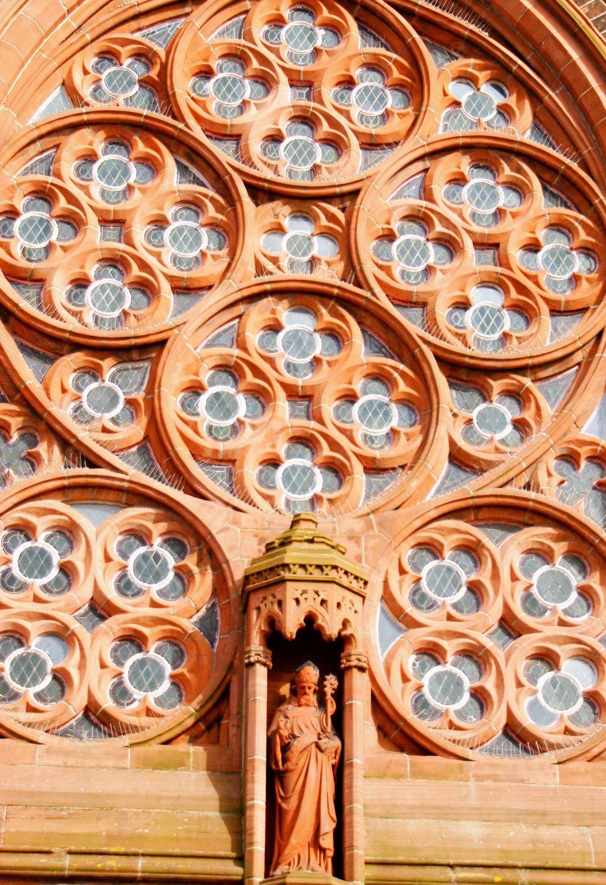 Detail of St. Augustine's RC chapel - Coatbridge